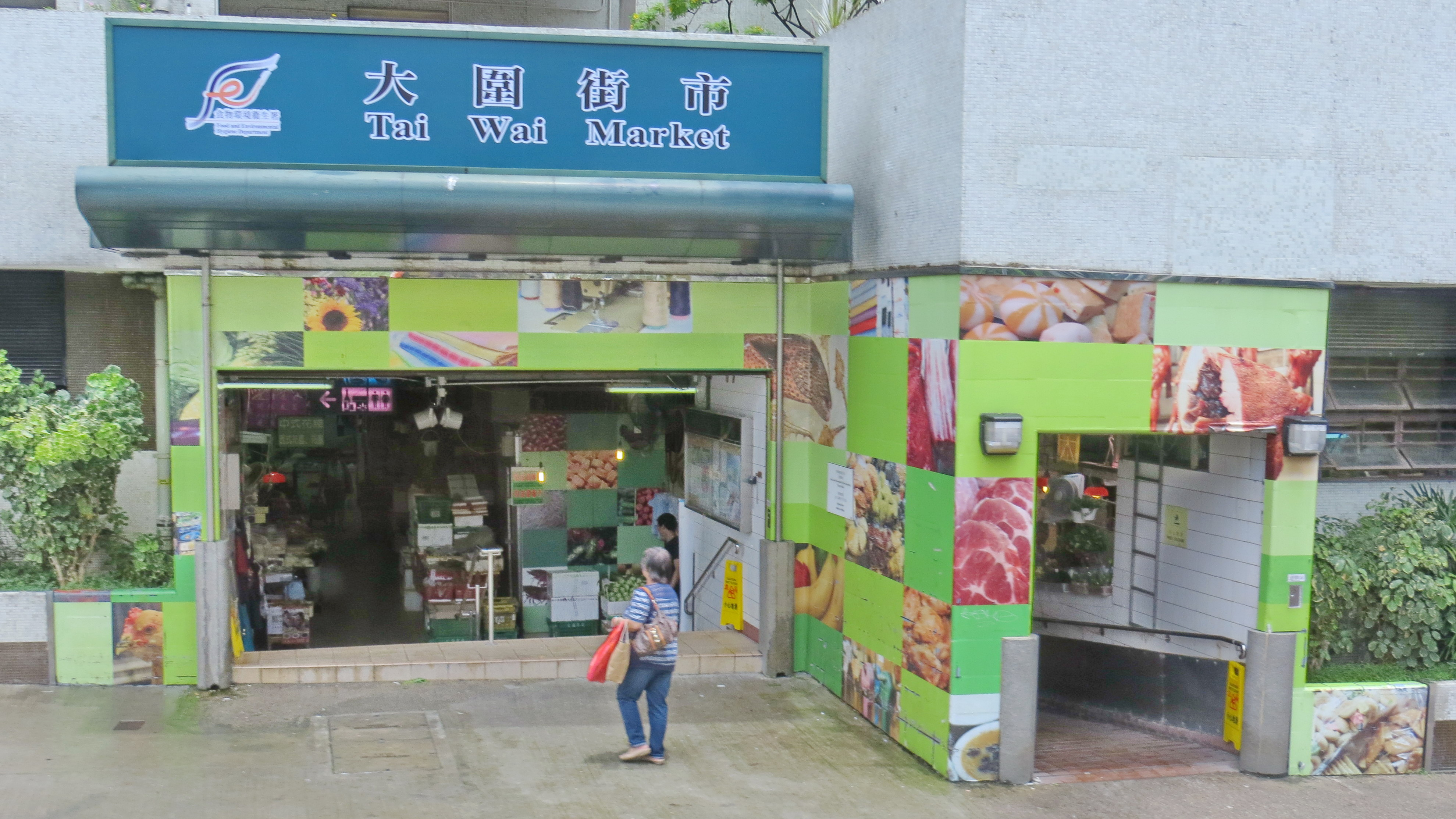 Tai Wai Market、Shatin, New Territories, Hong Kong.